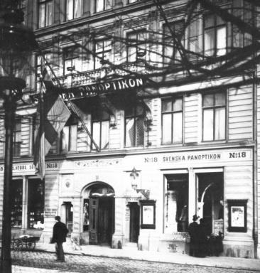 Svenska Panoptikon, exterior, early 20th century, photographer unknown